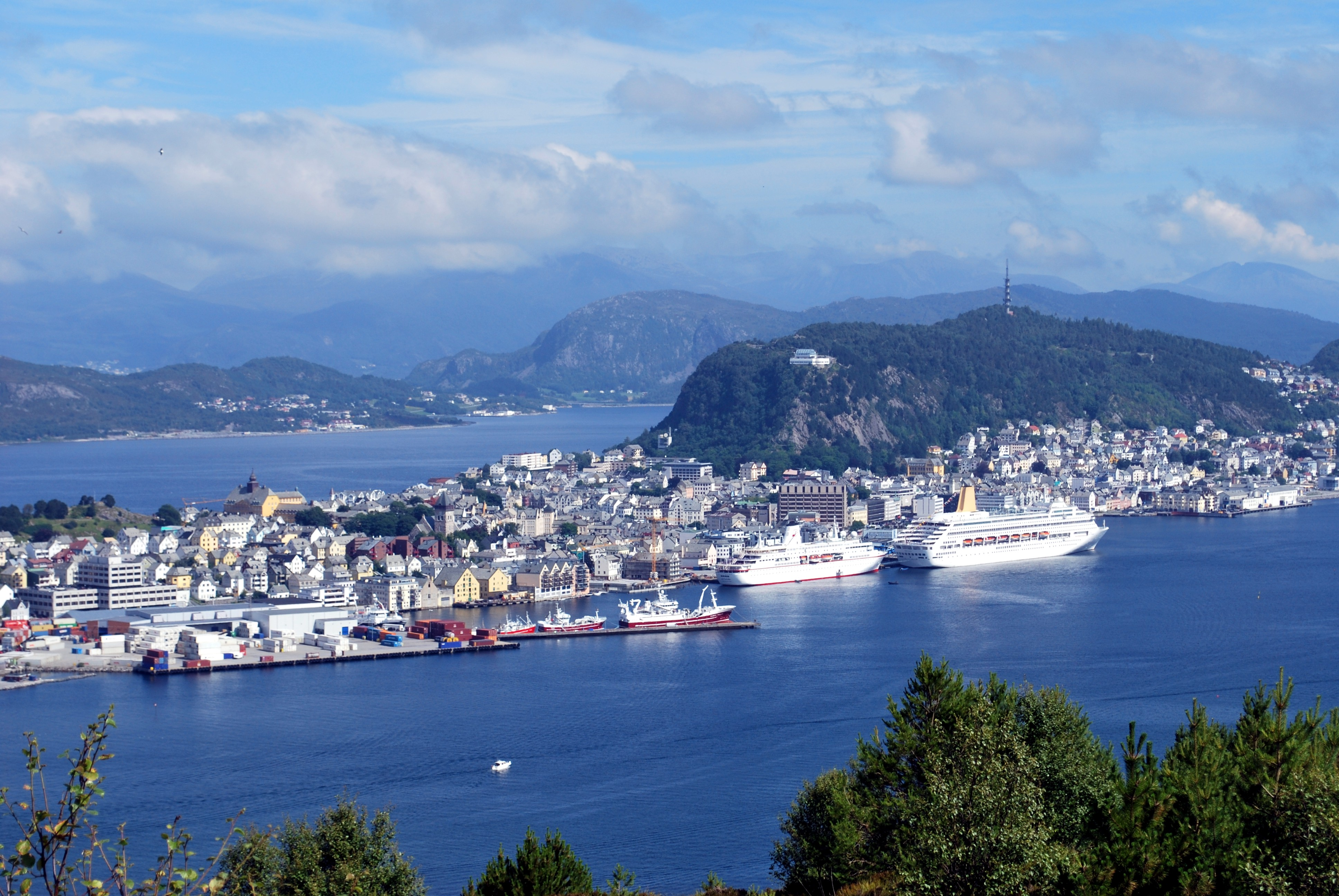 Ålesund, Norway. Aksla and Fjellstua. Aspevågen in foreground.